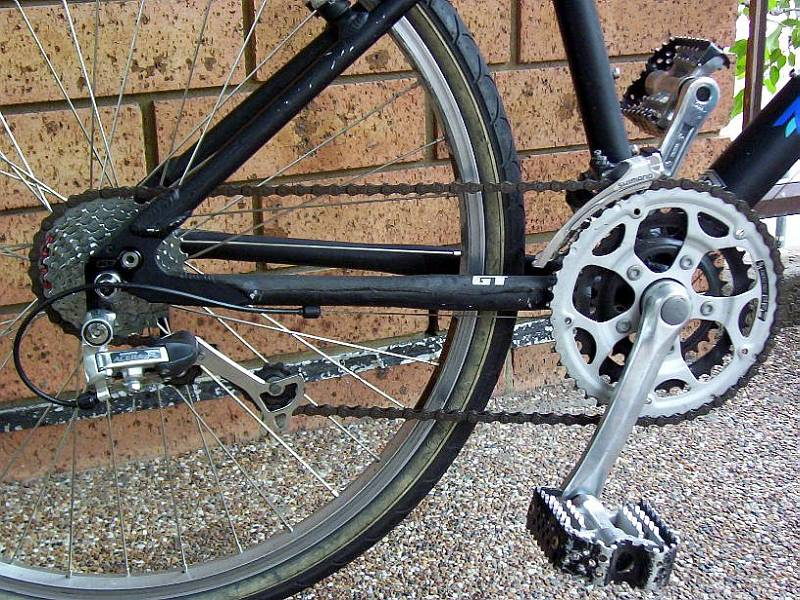 Measuring chain length